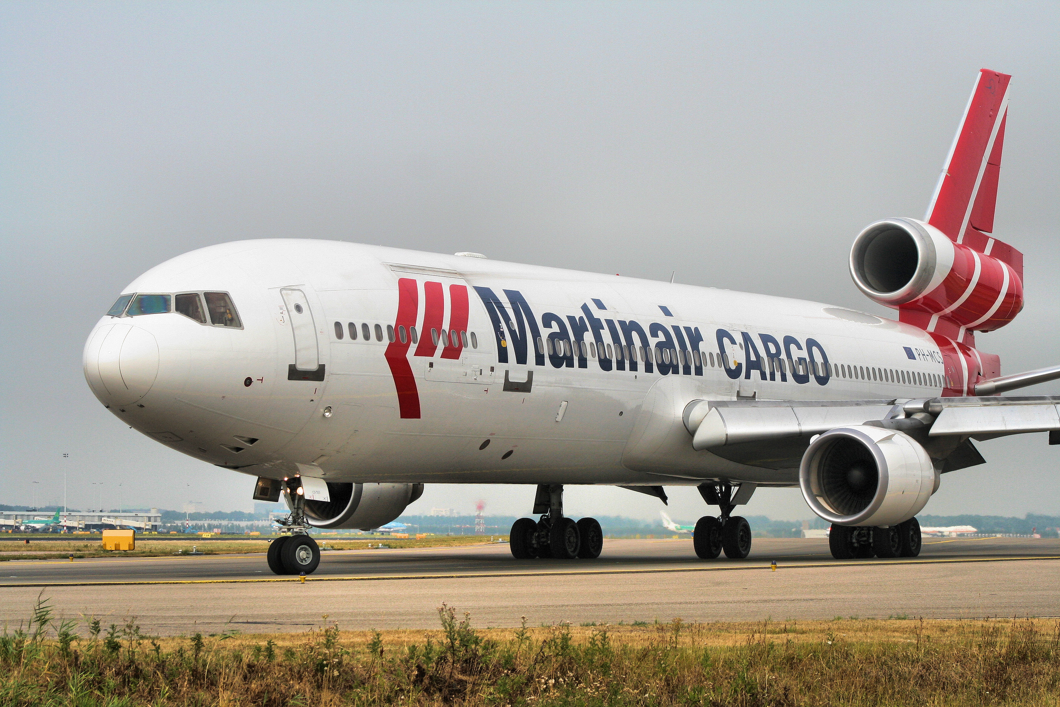 Martinair MD-11 at Schiphol Airport